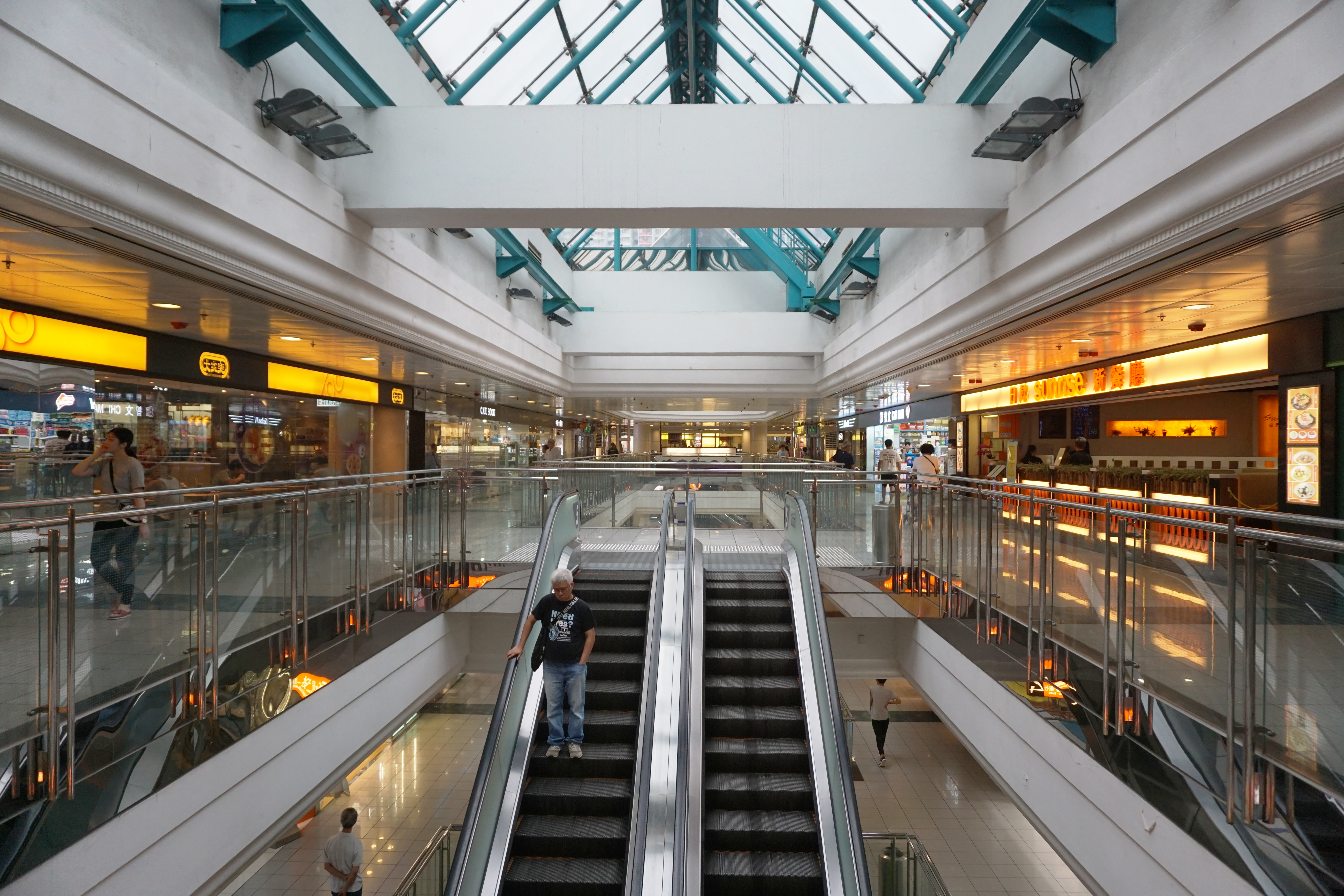 Tsz Wan Shan Shopping Centre in Tsz Wan Shan, Hong Kong.